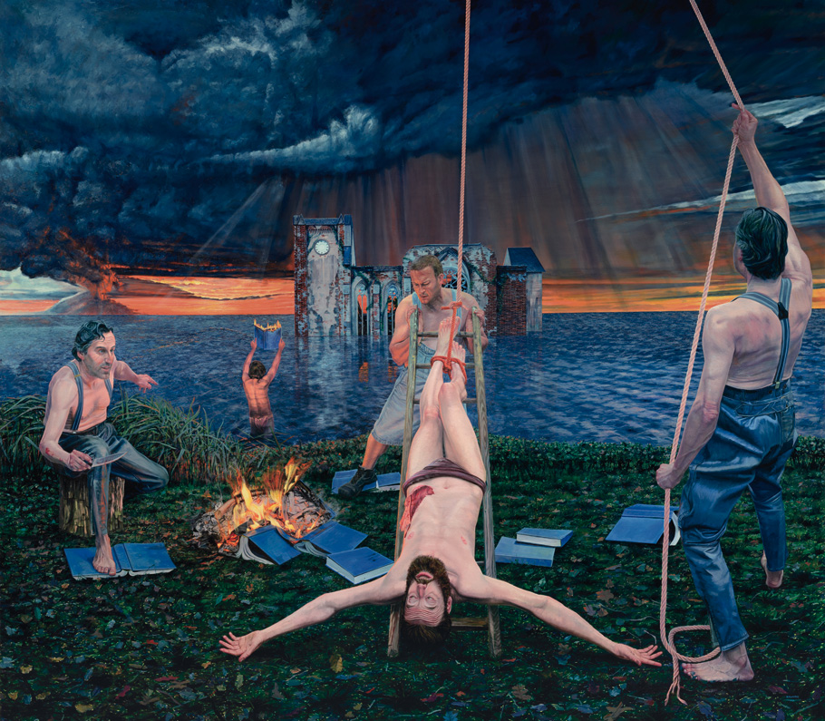 The caption shows the reproduction of a painting by German artist Aris Kalaizis. The painting is titled "Das Martyrium des hl. Bartholomäus oder das doppelte Martyrium". It was created 2014/2015 for the Imperial Cathedral St. Bartholomew in Frankfurt am Main.